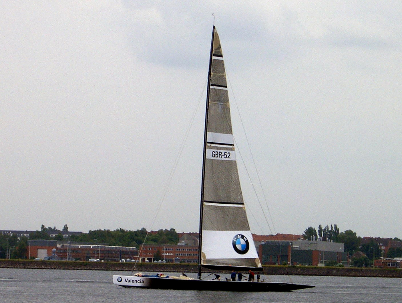 Sailing boat GBR-52 showing BMW logos IACC Class (America's Cup Class) in the harbour of Kiel (Germany) ahead of Kieler Woche Own photography, taken 16 June 05